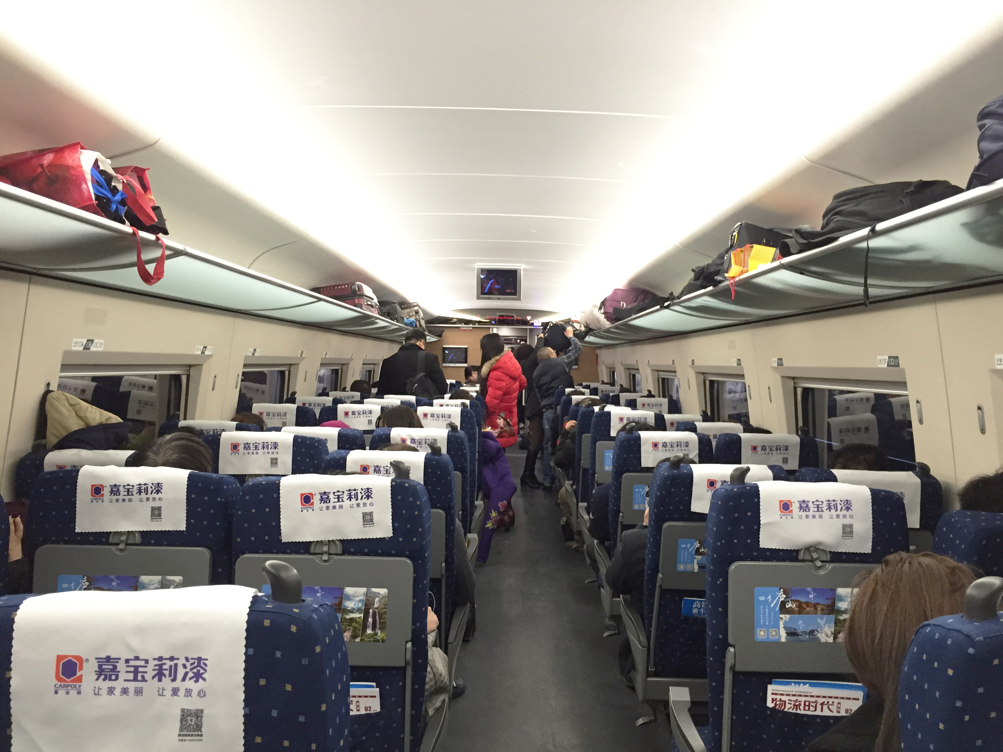 G511 to Wuhan. This can be seen as a typical scene in high speed trains of China.